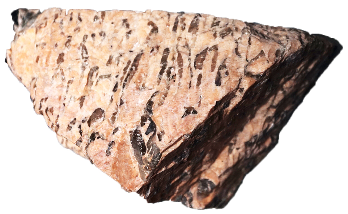 Tampere Mineral Museum.